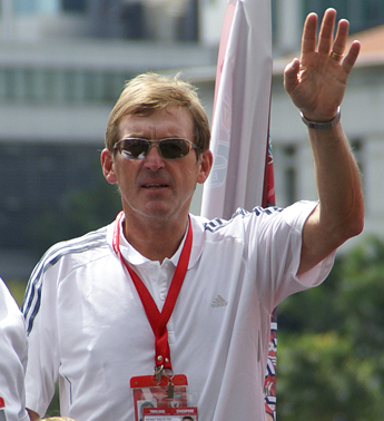 Kenny Dalglish from LFC boat tour @ Singapore river